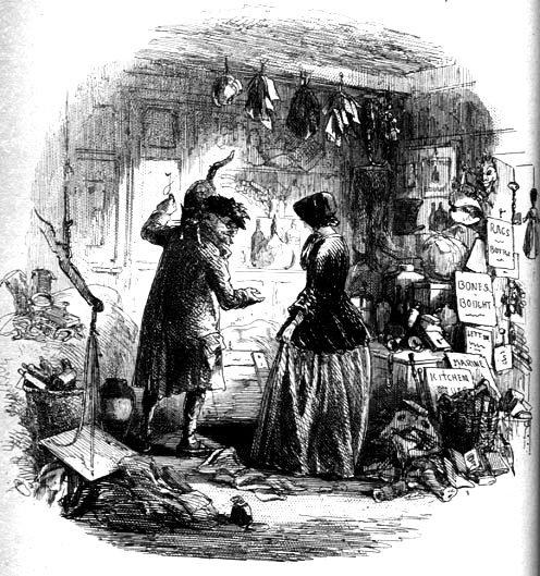 The Lord Chancellor Copies from Memory Phiz (Hablot K. Browne) 1853 Etching 4 1/8 x 4 1/8 inches on a page of 8 7/16 x 5 inches Facing p. 52, the close of the third chapter of Dickens's Bleak House